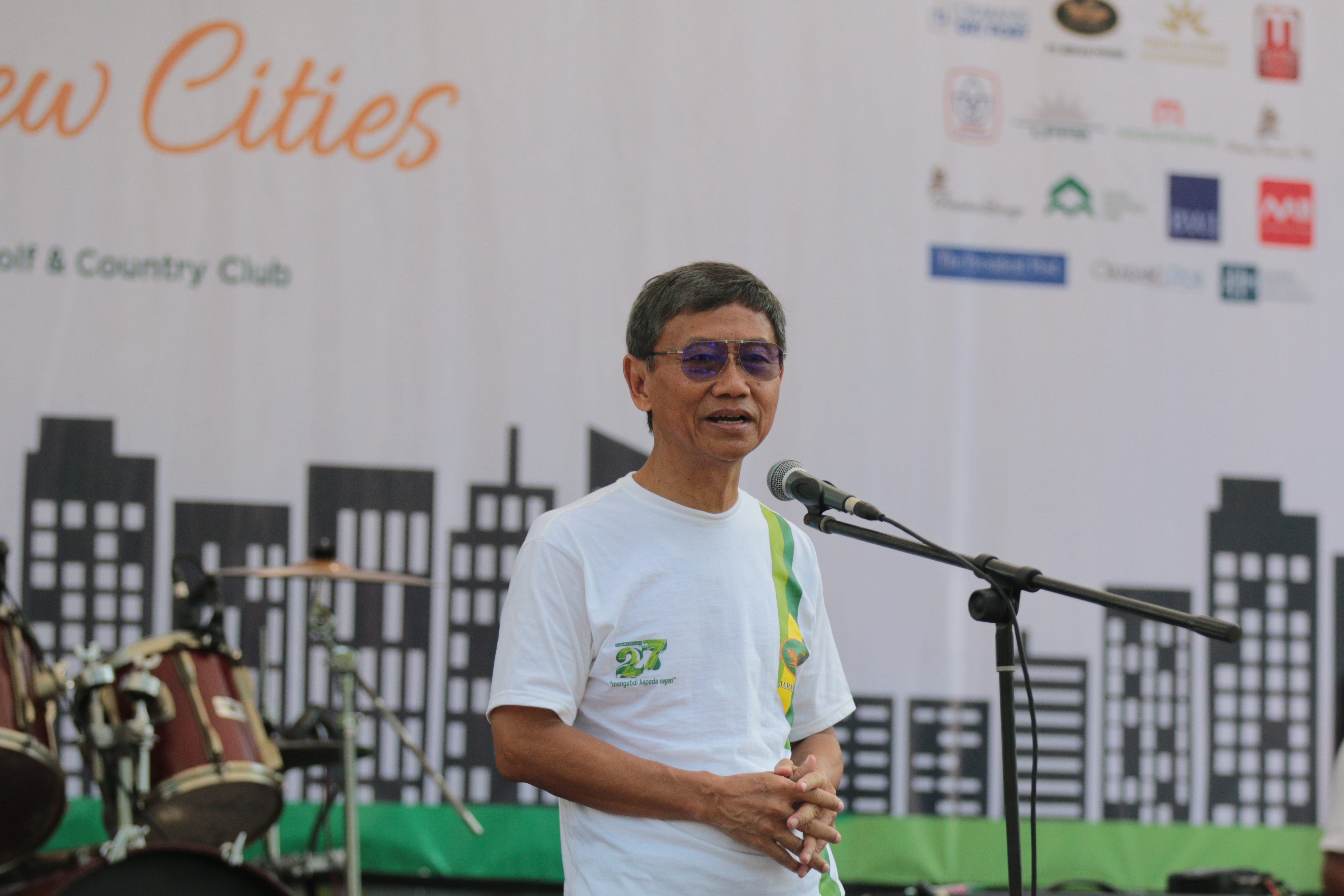 S.D Darmono in Jababeka Anniversary 2016